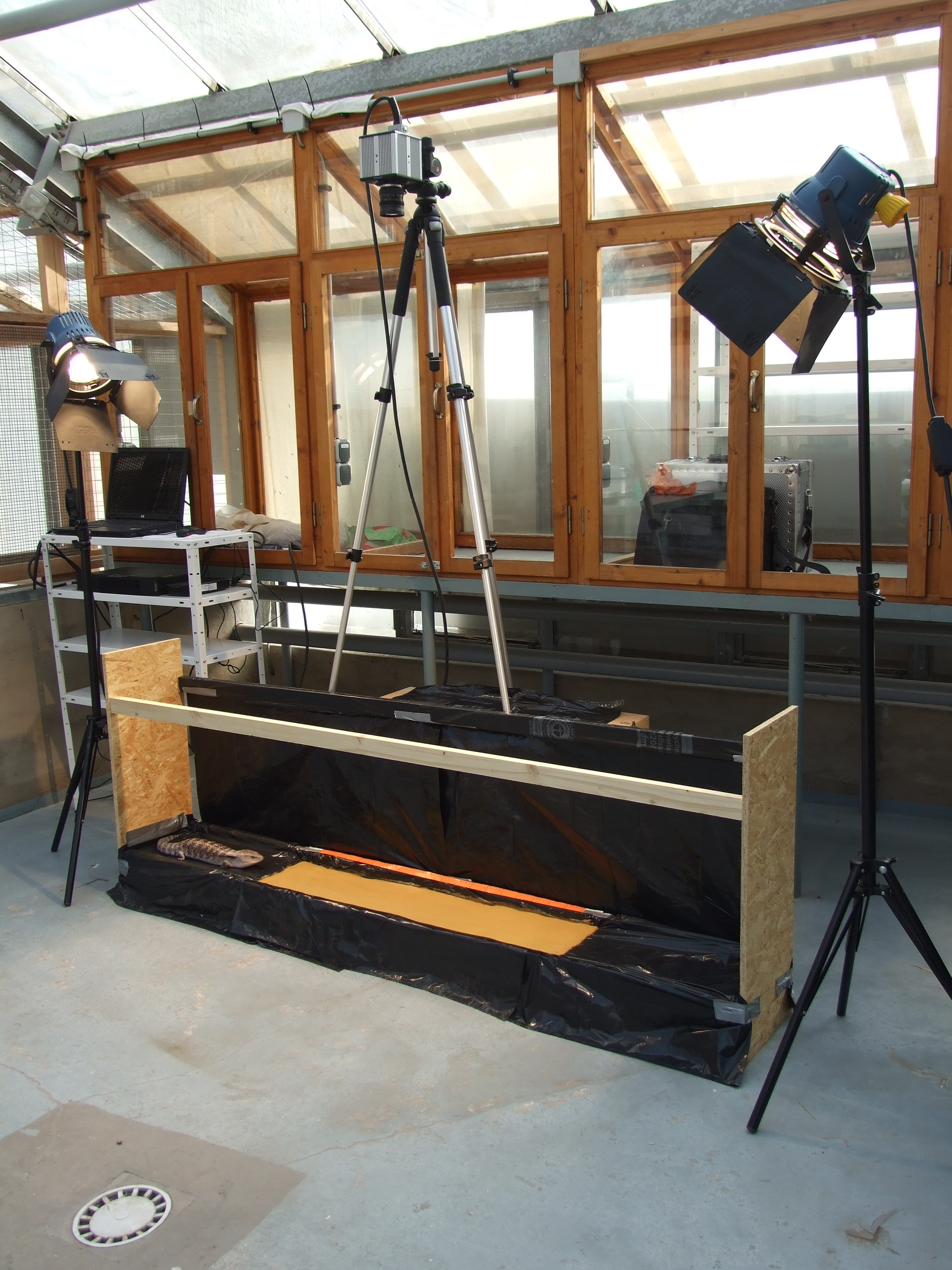 The image shows the setup used for the analysis of Tiliqua scincoides trackways, including pottery clay area, spotlights and high-speed camera